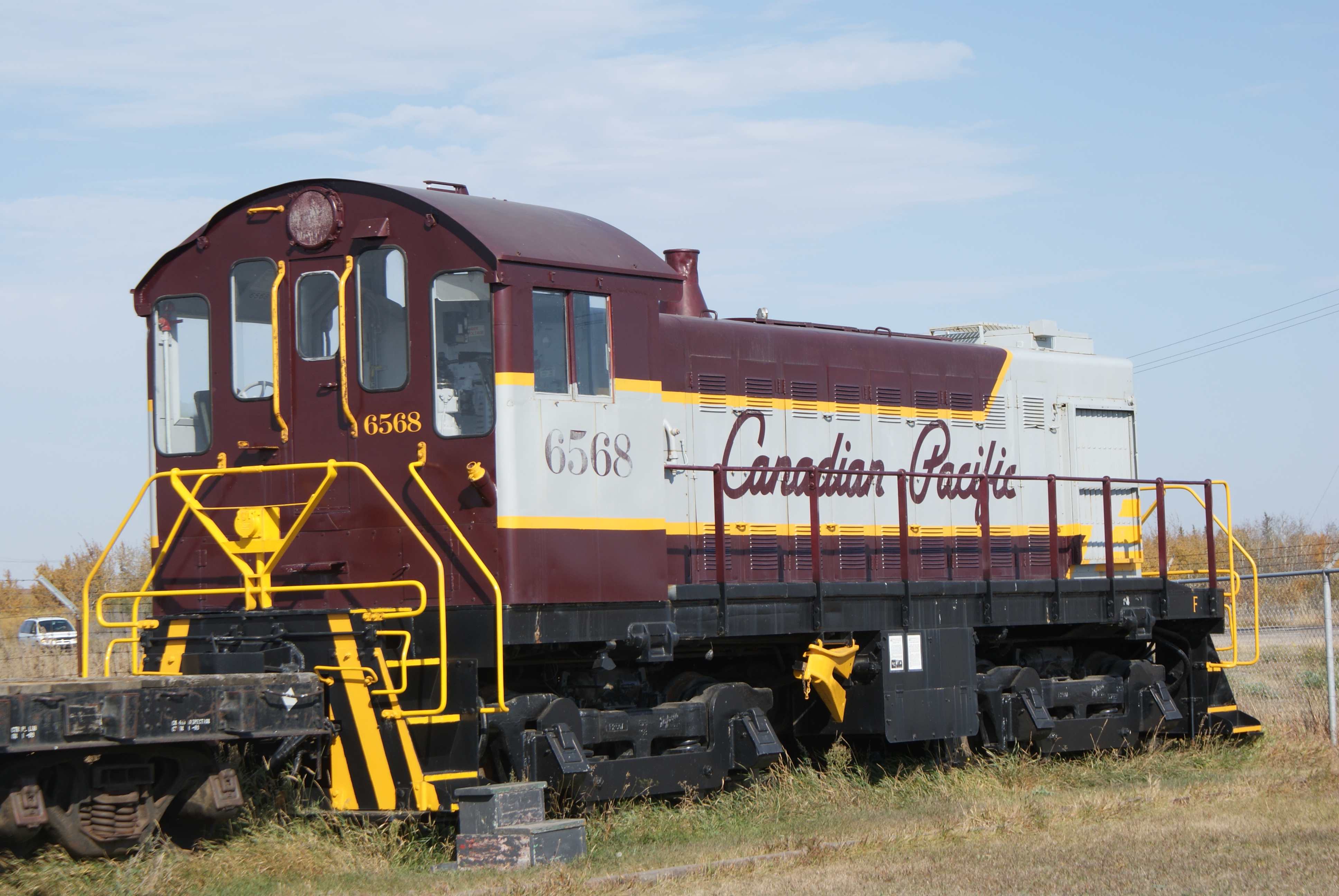 Saskatchewan Railway Museum Canadian Pacific Railway S3 diesel electric locomotive #6568 constructed in 1957 by Montreal Locomotive Works. According to the SRM, it has a 660 horsepower McIntosh and Seymore 539 diesel engine which operates a General Electric generator. The electricity produced is 600 volts direct current which turns four traction motors driving each axle. This locomotive was used in Sutherland CPR train yards. This particular railway locomotive is a light switcher and was used to switch cars between tracks in the Sutherland train yards.